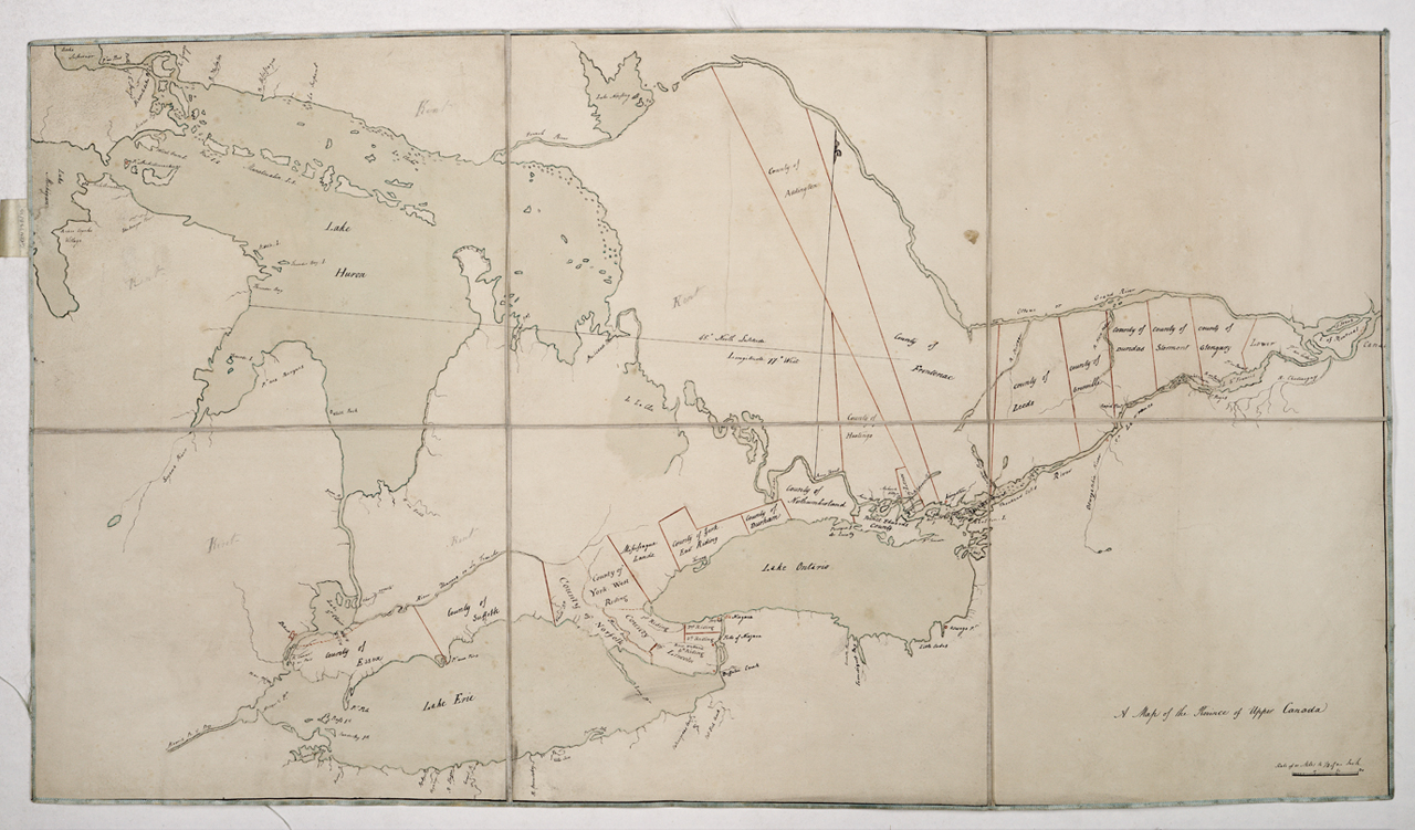 A map of the Province of Upper CanadaSingle sheet. Ms. Medium: Segmented and backed. Scale: 1:267 200. Cartographic Note: North at 4 degrees. Latitude 45 degrees N and 77 degrees W marked. Additional Places: Lake Huron, Lake Ontario, Montreal. Contents Note: County boundaries are shown in red. Gren75B/3 A map of the Province of Upper Canada